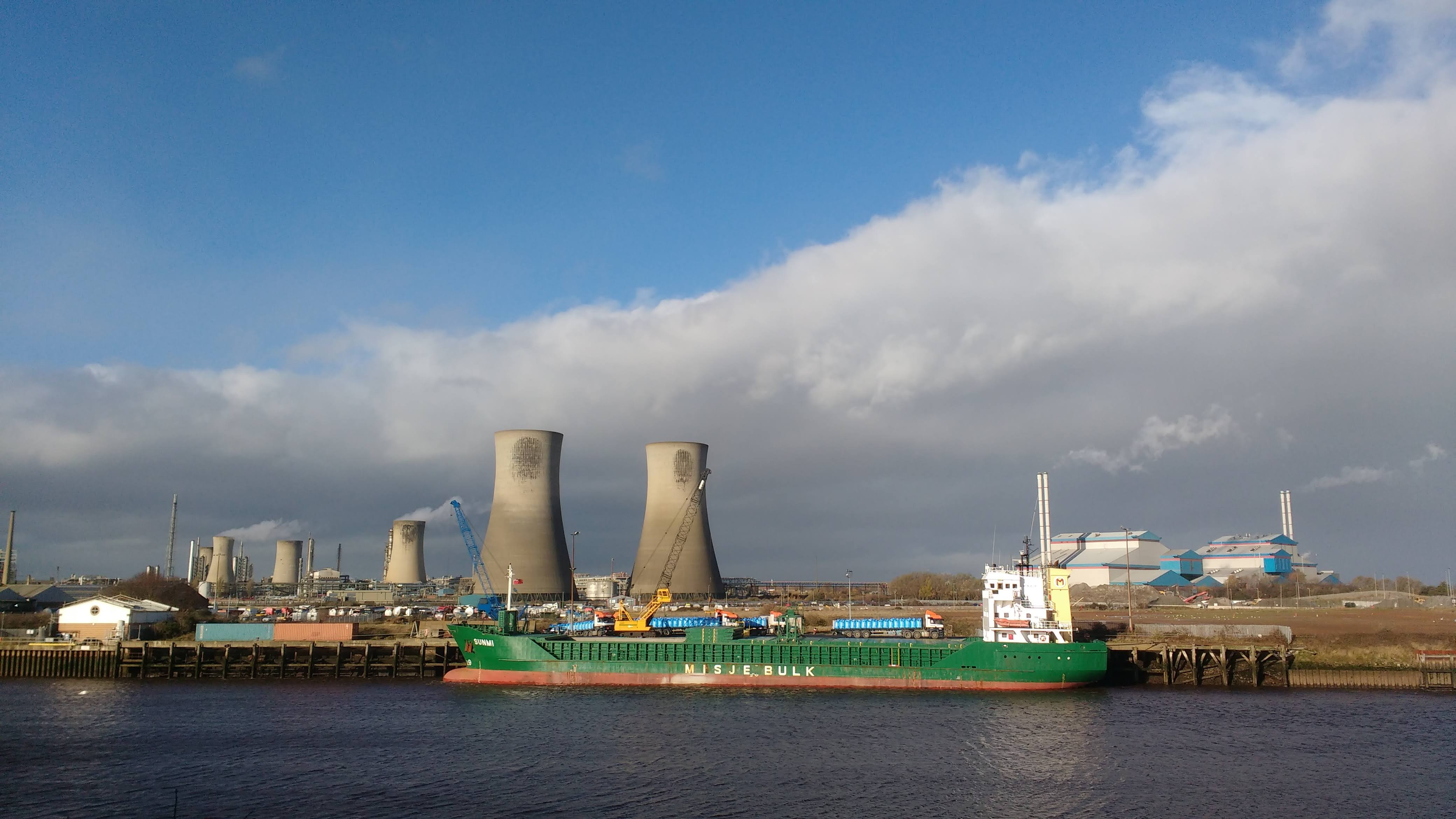 Haverton Hill, England.